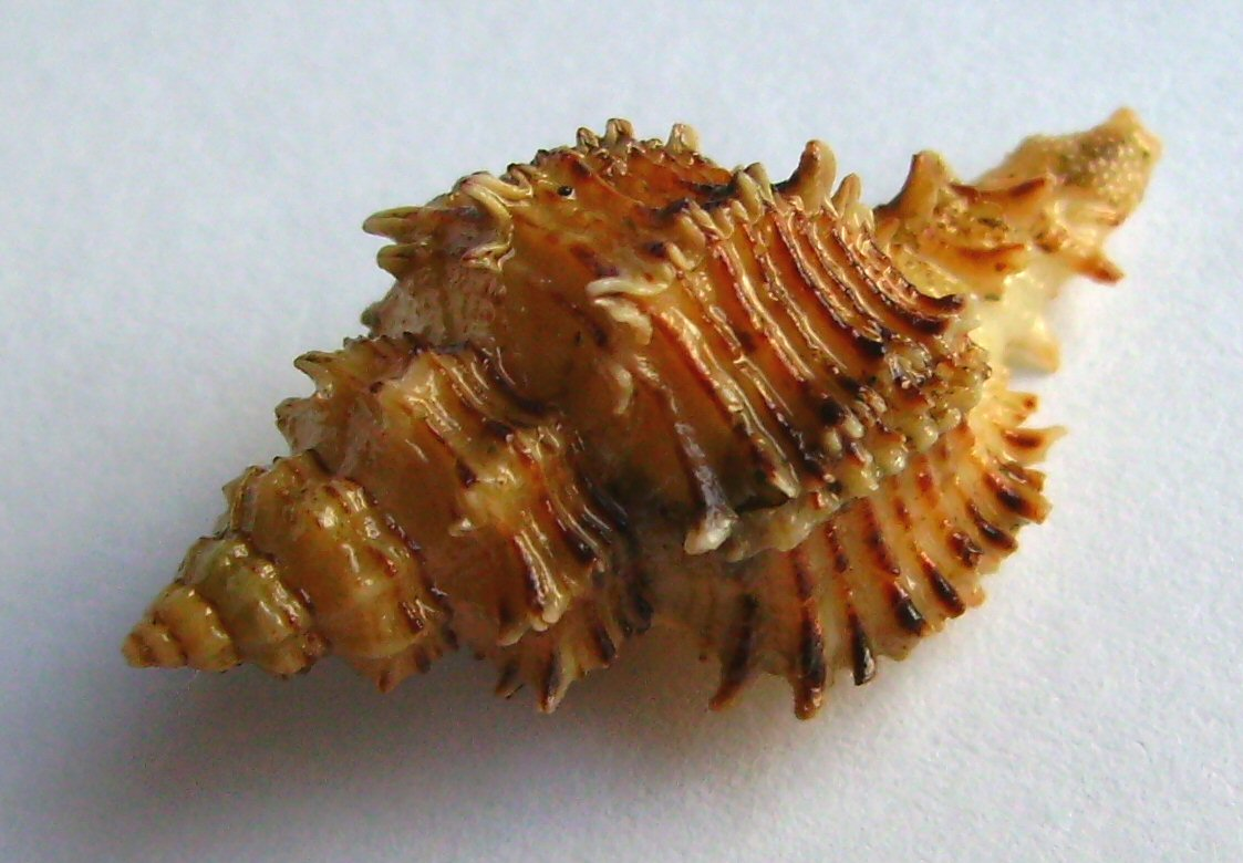 Murexsul octogonus (Quoy & Gaimard, 1833) (octagonal murex) dredged from the east coast of Northland , New Zealand. This work has been released into the public domain by its author, Graham Bould. This applies worldwide.In some countries this may not be legally possible; if so:Graham Bould grants anyone the right to use this work for any purpose, without any conditions, unless such conditions are required by law.